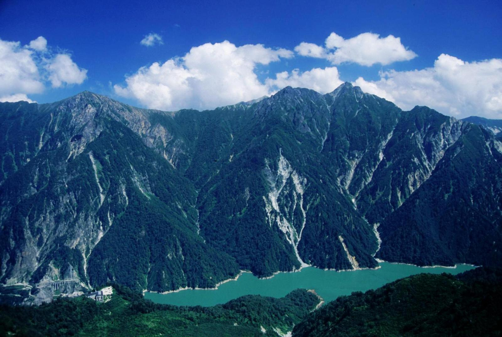 Mount_Harinoki and Lake Kurobefrom Daikanbō of Mount Tate in Hida Mountains, japan.